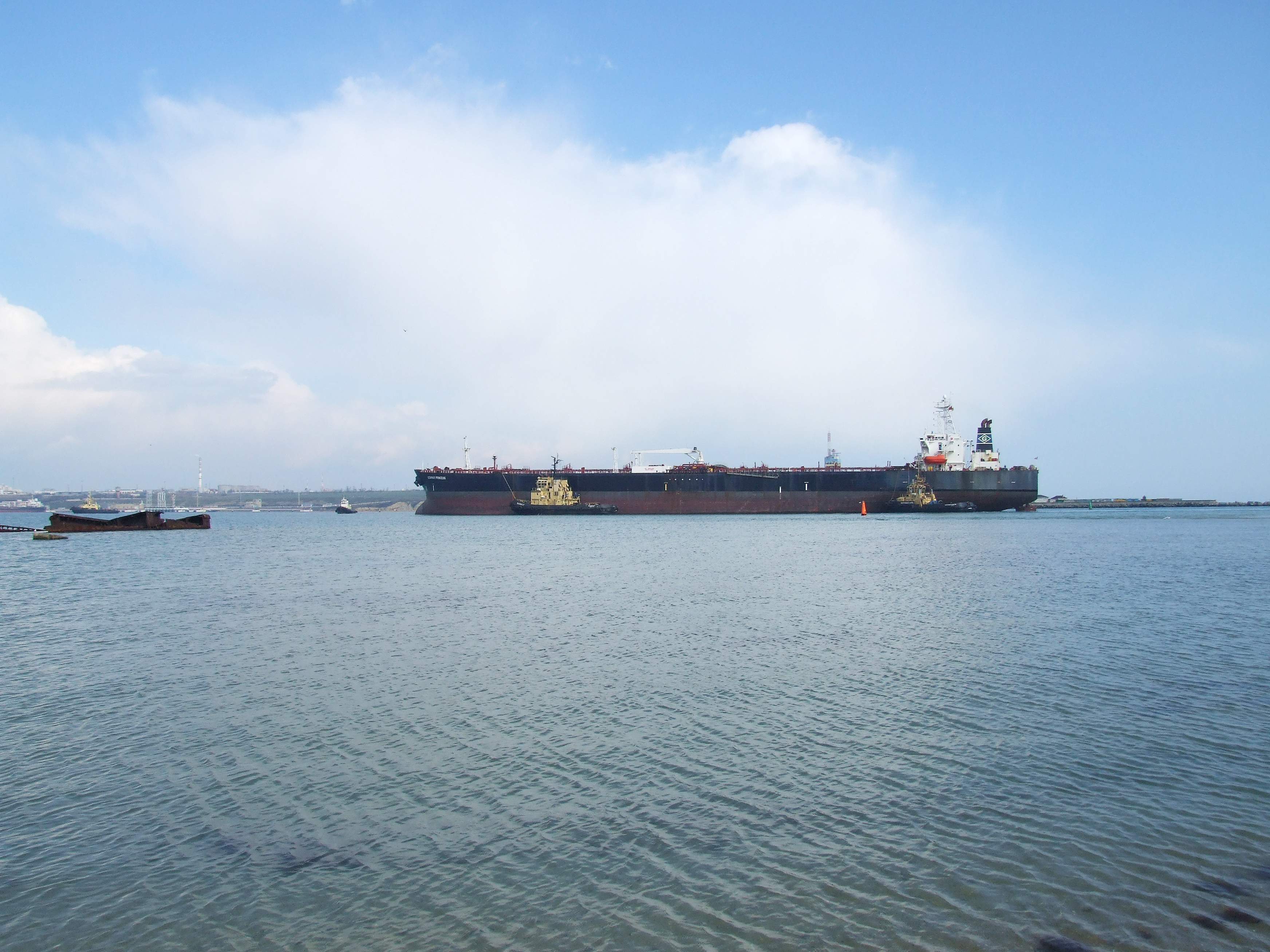 Crude oil tanker comes through the channel into Adzhalykskyi liman, Odessa Oblast, Ukraine